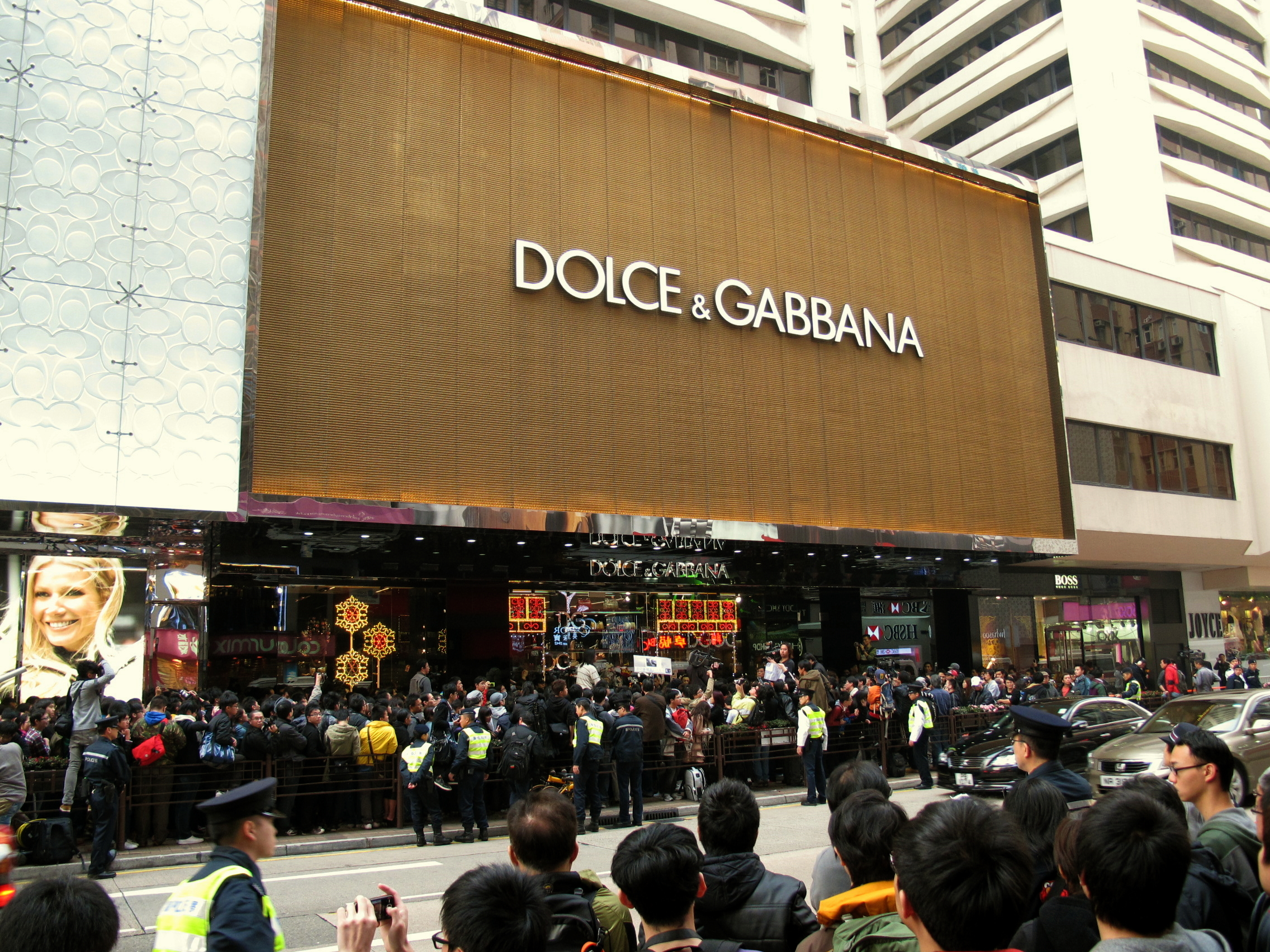 Dolce & Gabbana HK Protests